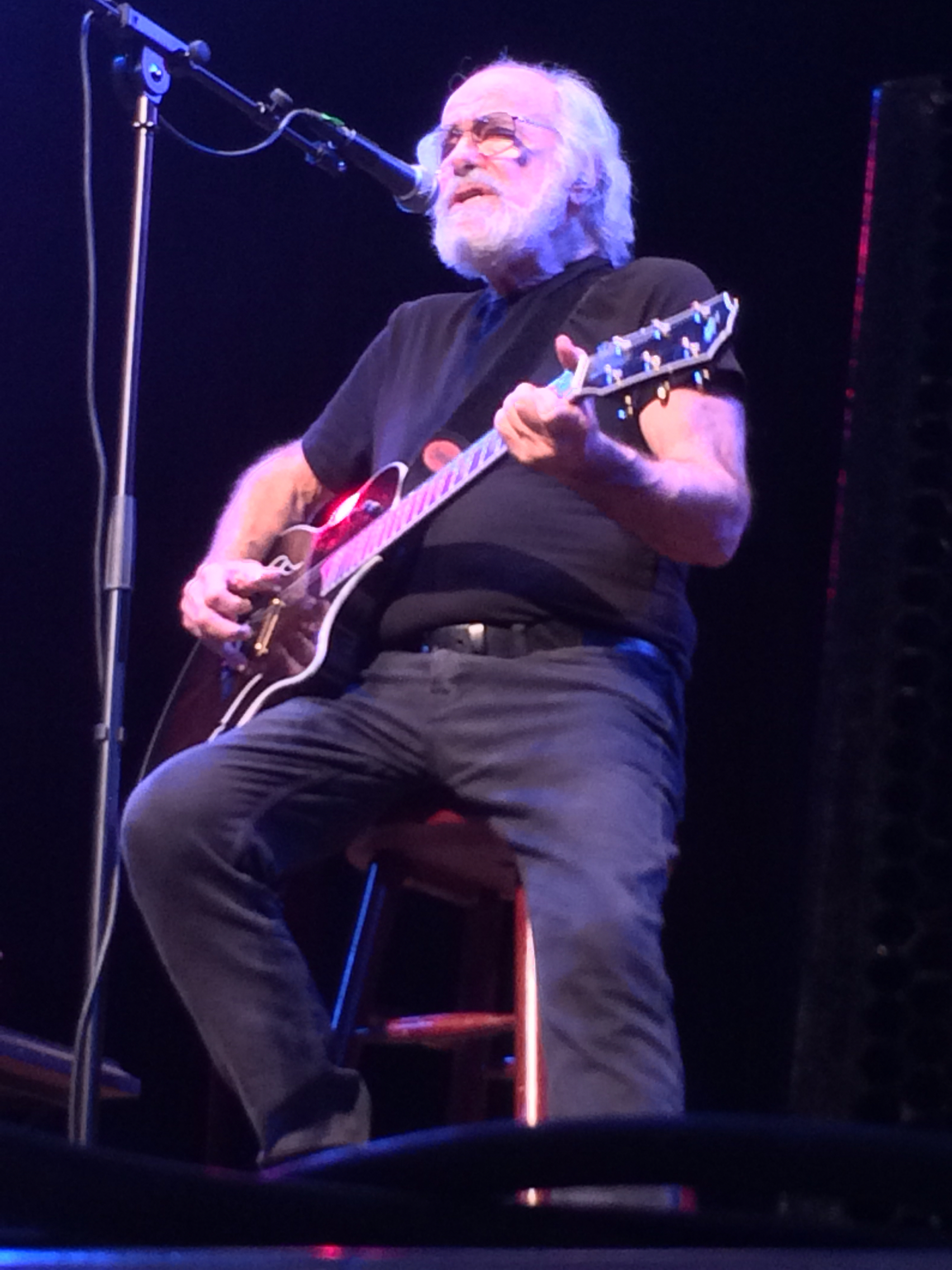 Robert Hunter in Concert. The Town Hall, New York, New York. 2013-10-10.